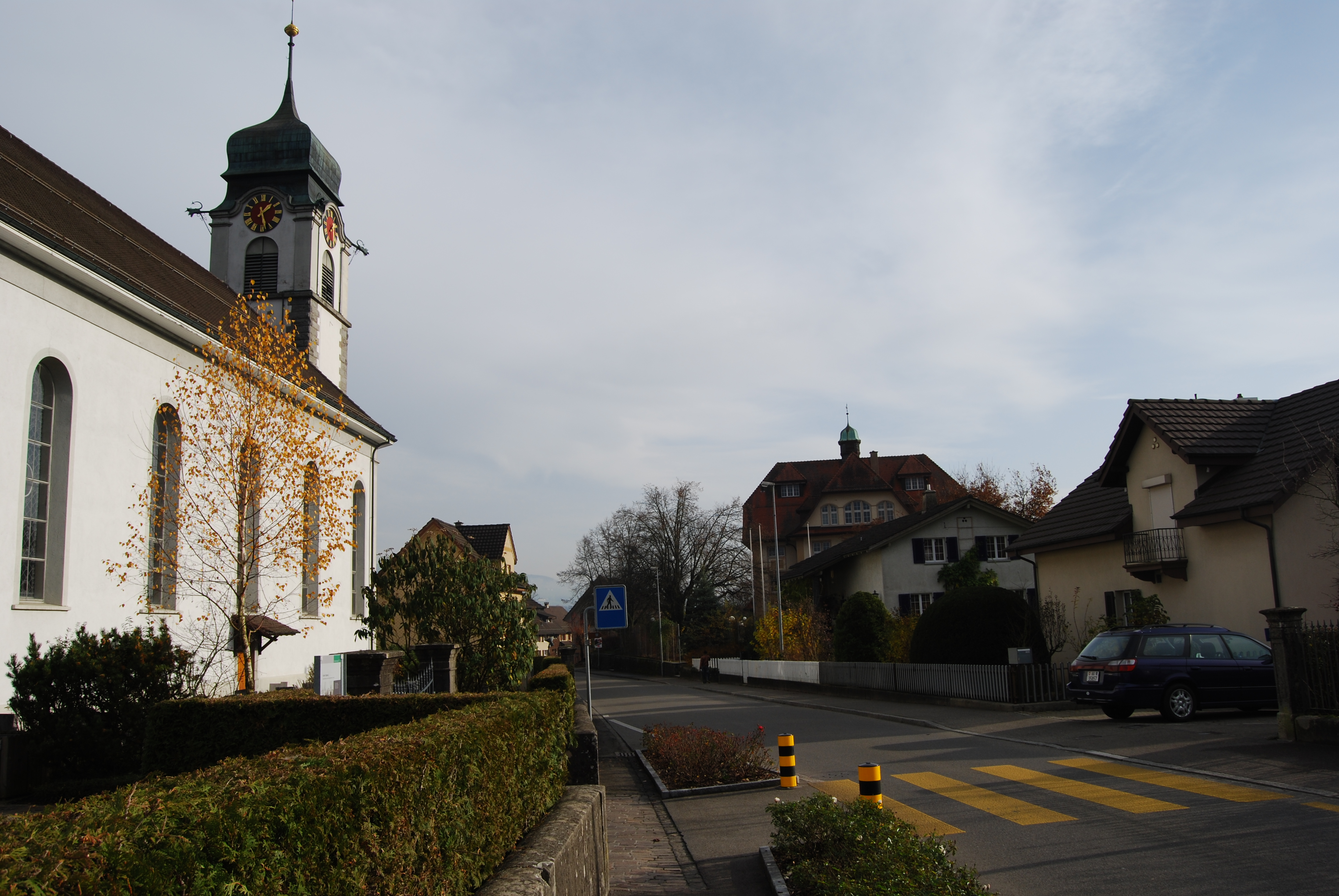 Tägerig, canton of Aargau, SwitzerlandEsperanto: Tägerig, Kantono Argovio, Svislando